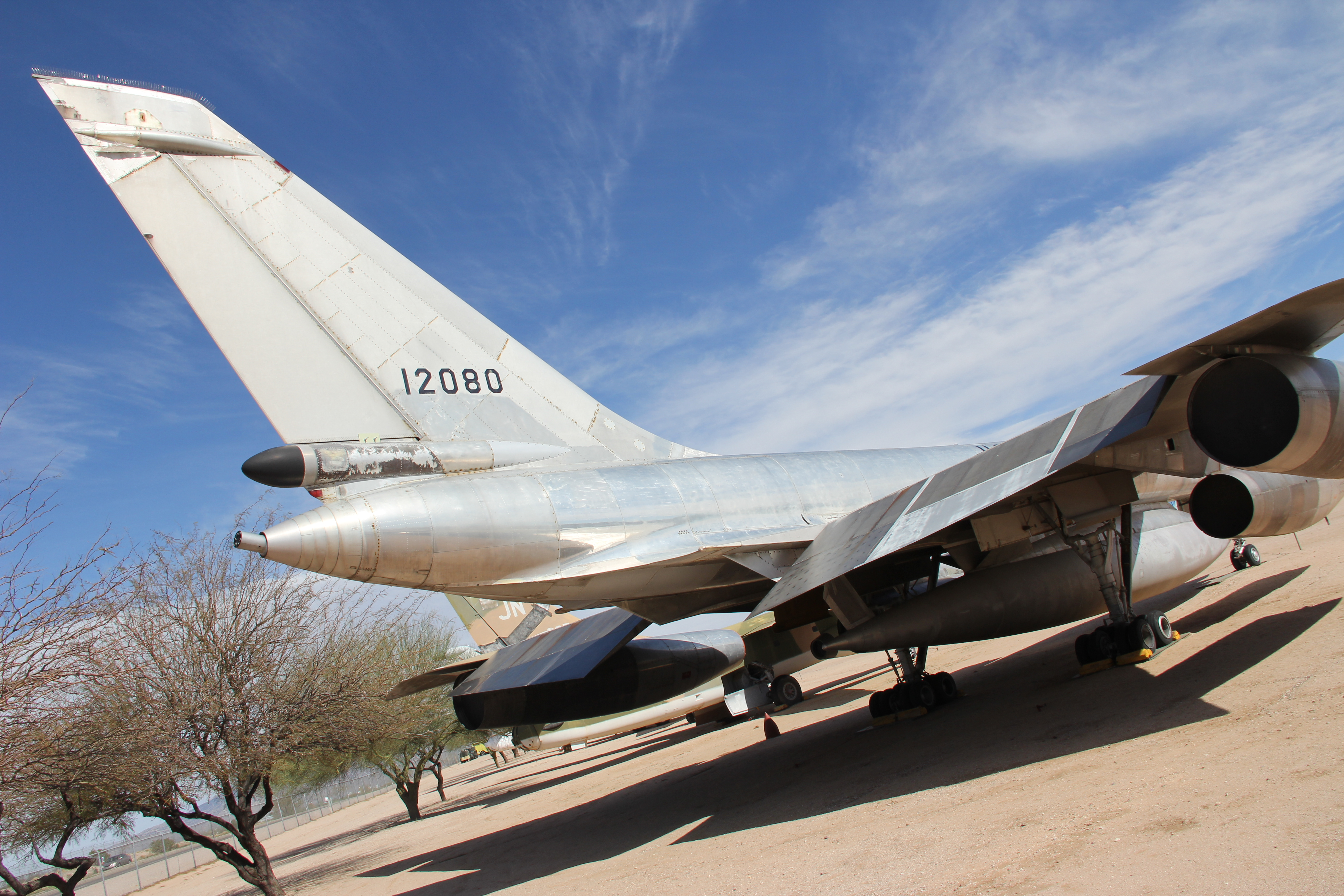 Serial Number: 61-2080 Markings: 305th Bombardment Wing, Grissom AFB, Indiana, 1969